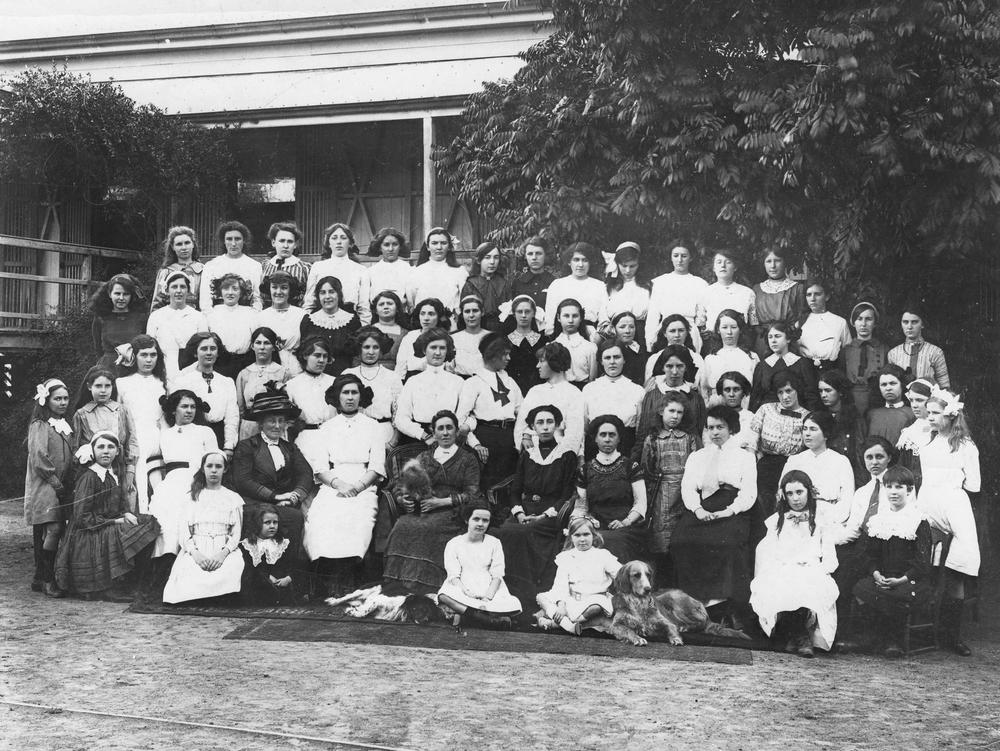 Ladies of Duporth Private School, Oxley, 1913 Duporth 'ladies' school moved from Brisbane to Oxley in 1888, taking an attractive rural site that would be used as an Ursuline convent between 1924 and 1957 and the Canossa Hospital (1965).